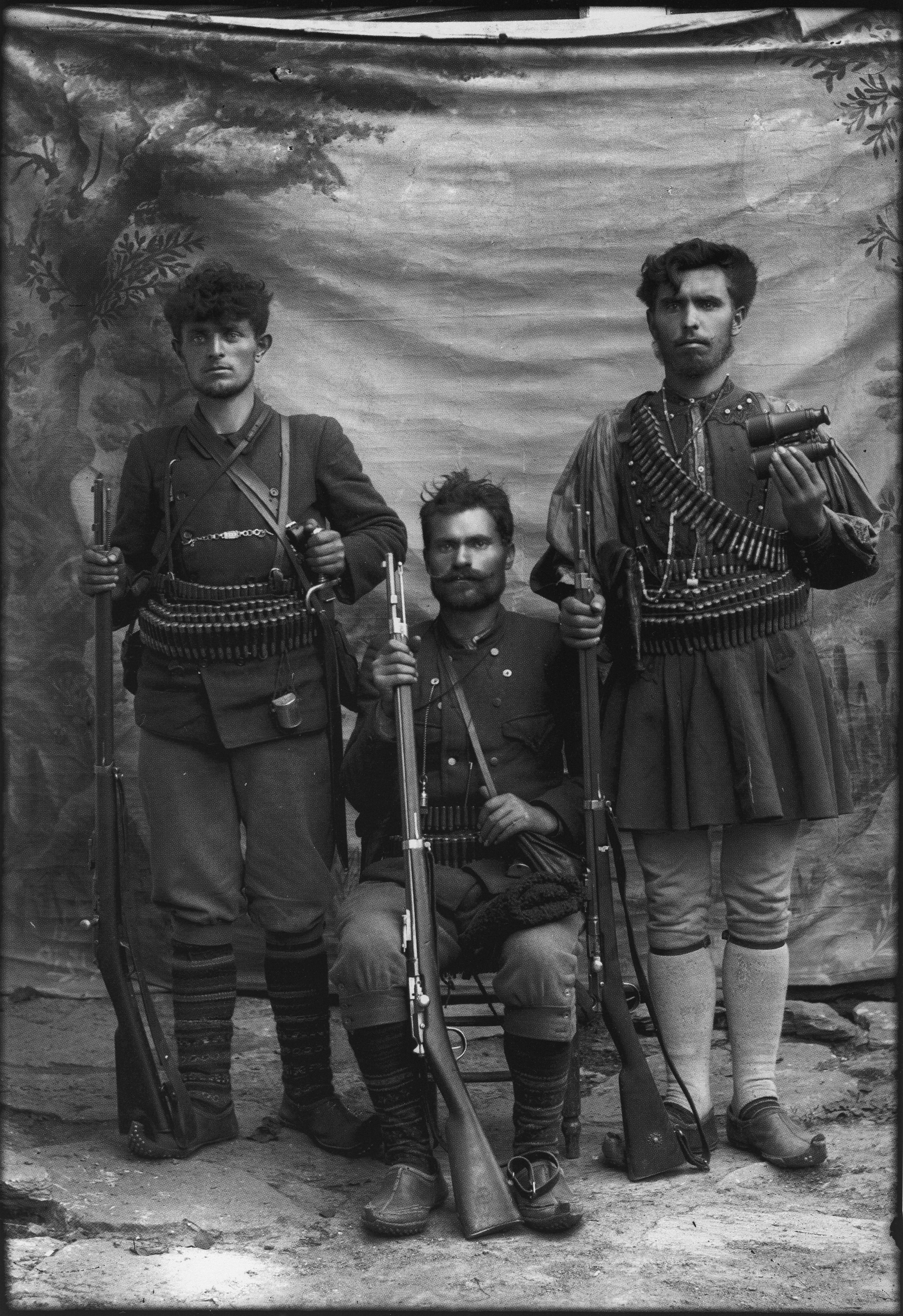 IMARO members. In the middle Manol Rozov vojvoda from the village of Bobishta (today Verga, Kastoria Prefecture, Greece), killed on September 3, 1903. The one on the right is Marko Ivanov vojvoda from the village of Palior (today Foufas, Kozani Prefecture, Greece).